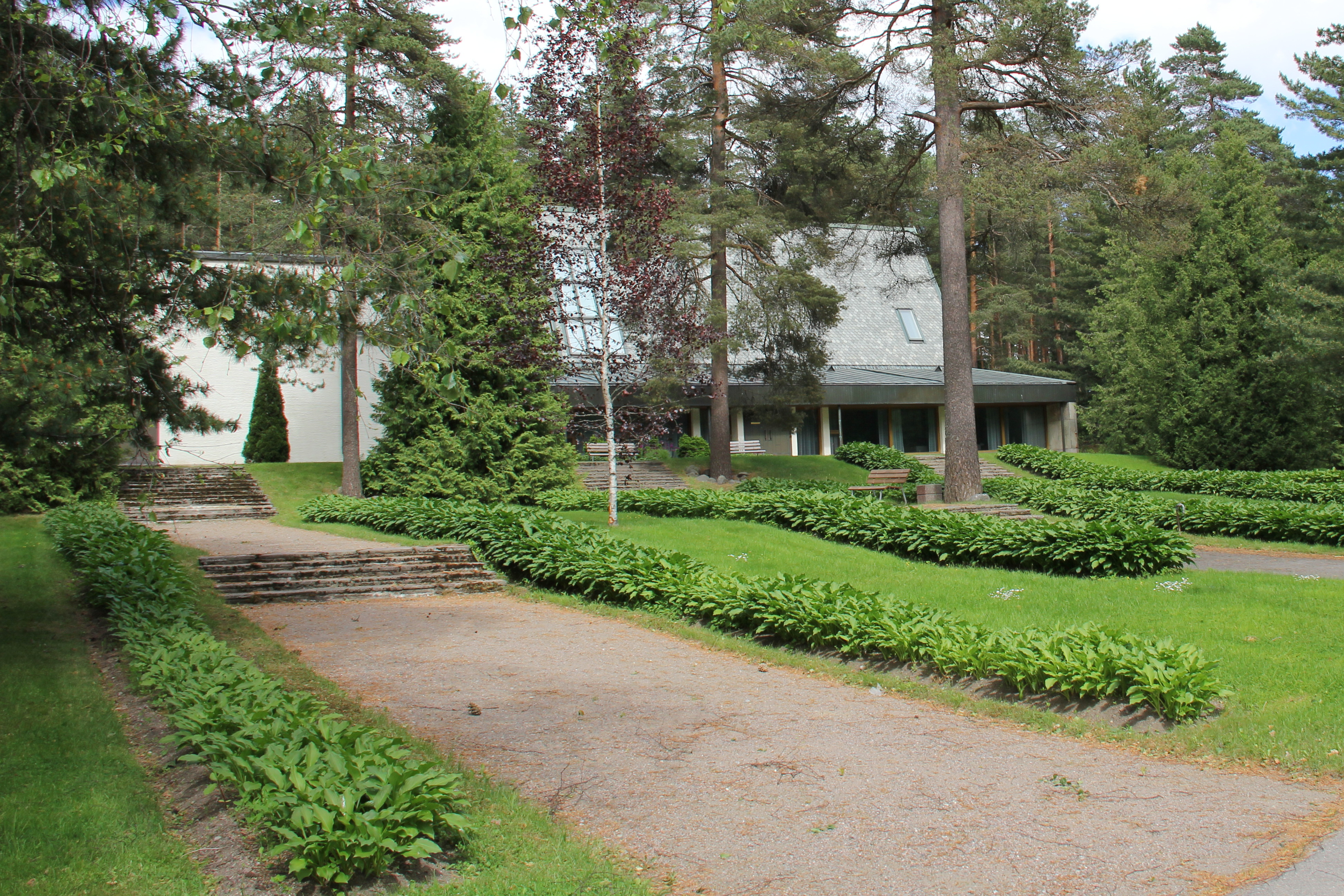 Levon hautausmaa, Lahti, Finland. - Chapel.